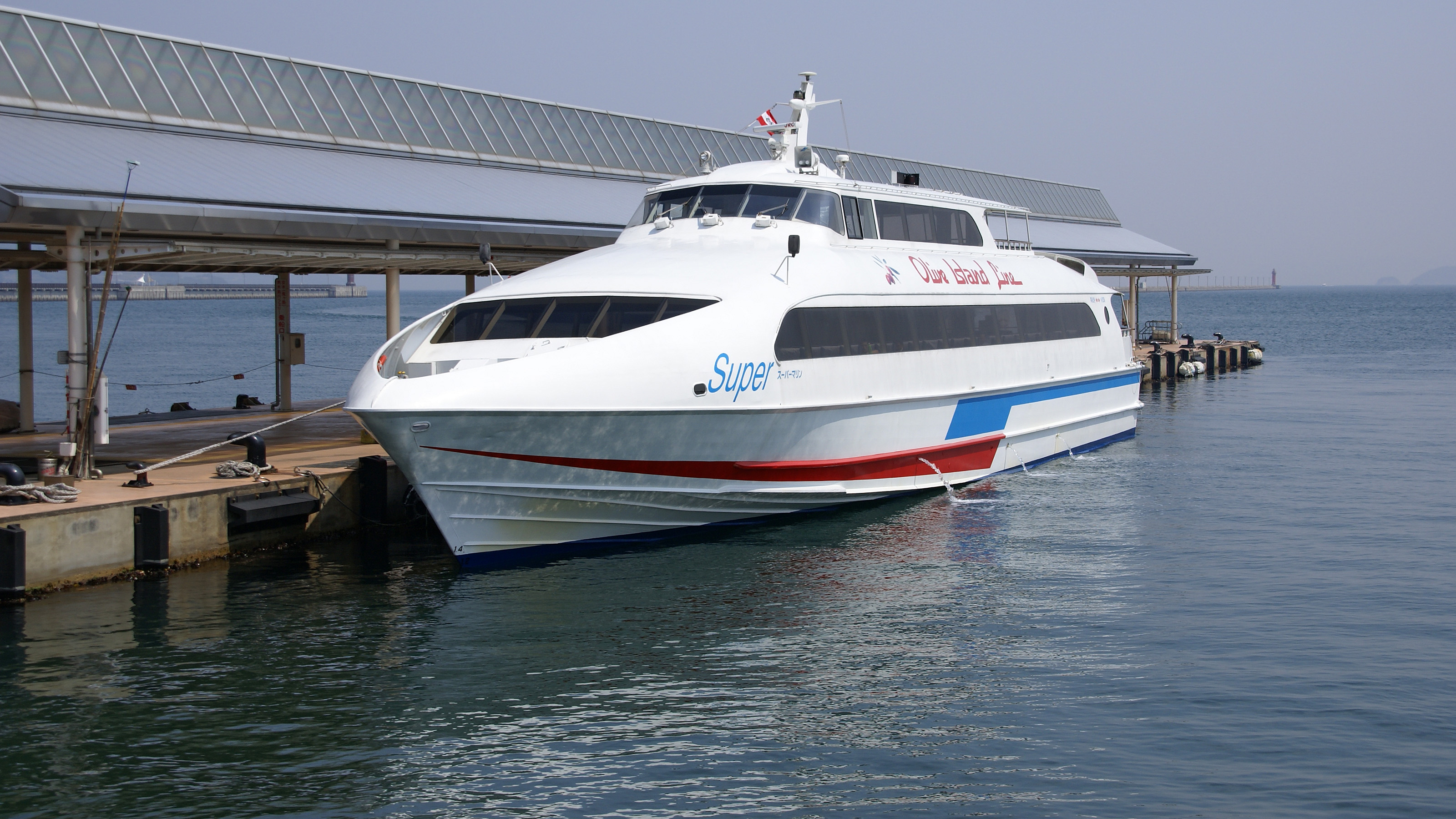 "Super Marine" who anchors at Takamatsu port in Takamatsu Kagawa Prefecture, Japan)